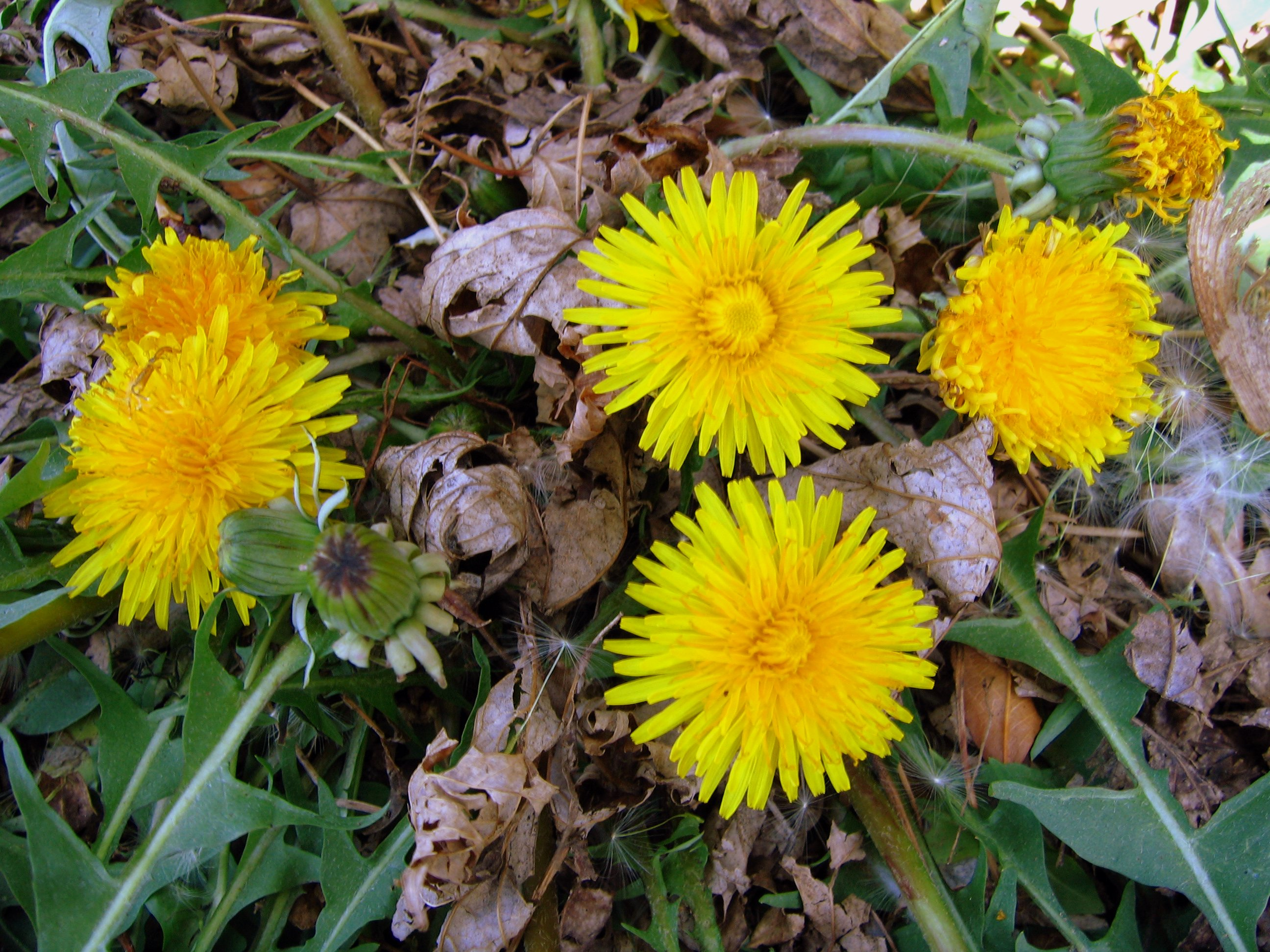 A patch of dandelion flowers taken by Robert Engelhardt. This picture was taken specifically for the Beekeeping Wiki book, but may be used for any purpose for which it is fit.